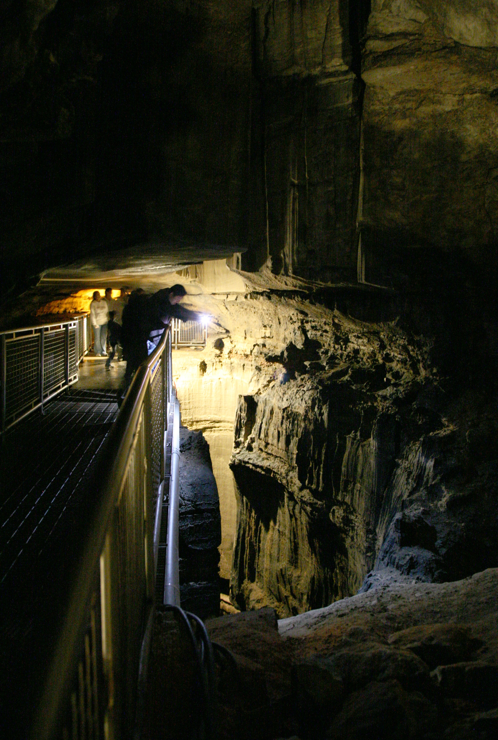 Bridge across 'Bottomless Pit in Mammoth Cave.